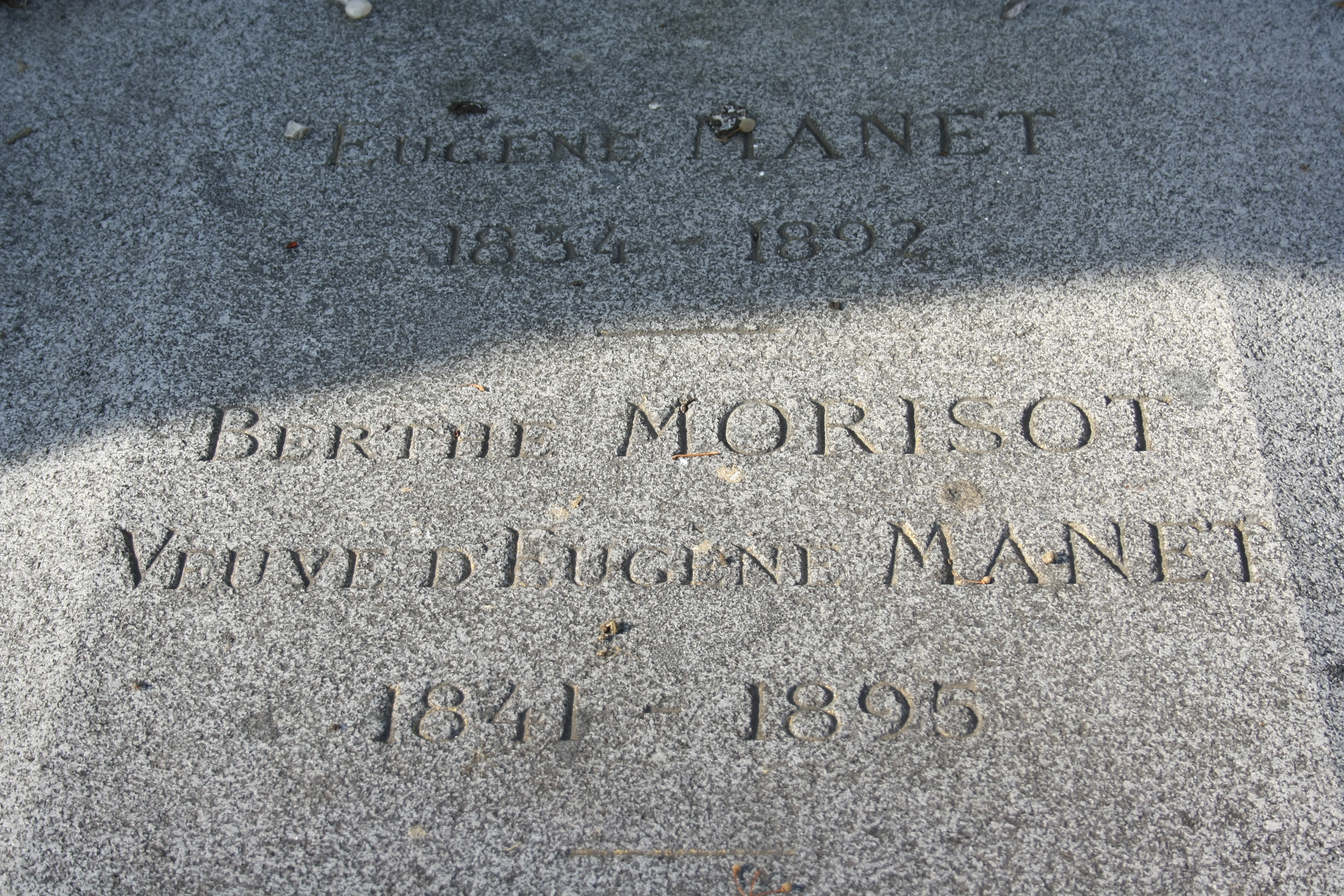 Tombstone of Eugène Manet and his wife Berthe Morisot in the cemetery of Passy, France. (Eugène Manet 1834-1892, Berthe Morisot, Veuve d'Eugène Manet 1841-1896). Part of the grave of the Manets